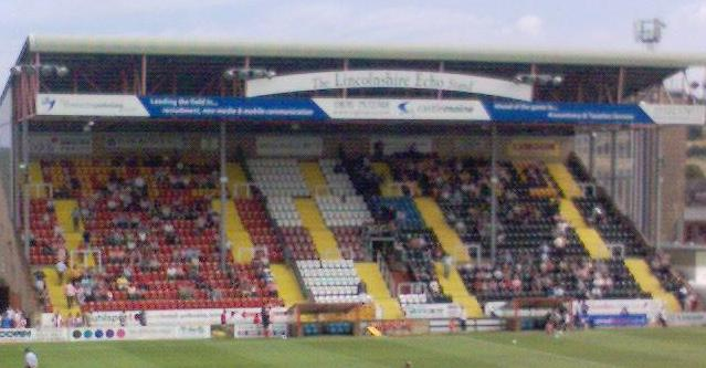 I took this pic and have uploaded it.